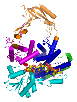 topo III bound to DNA generated by Pymol using pdb from PDB.